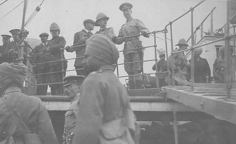 Written on page: Departure of 47th Sikhs for India from Tientsin PH Coll 214.J58b